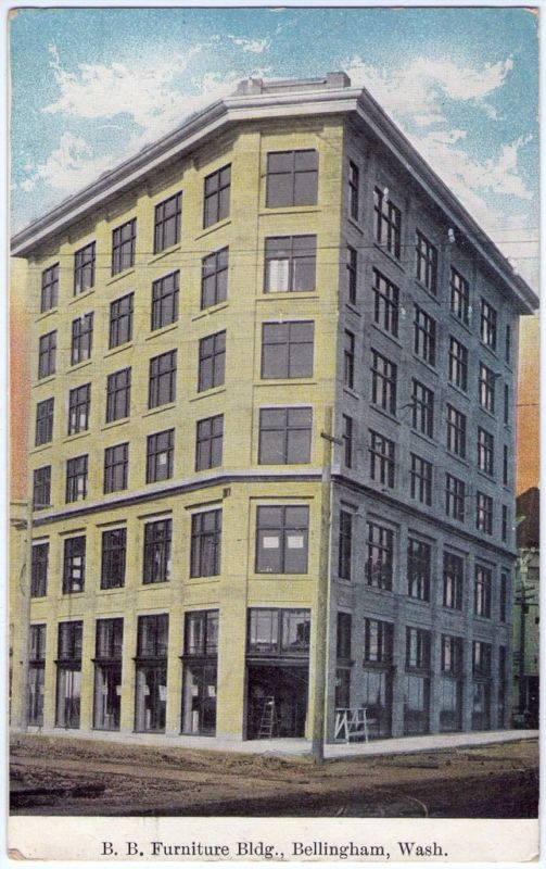 Postcard showing the BB Furniture Building near the end of construction, around 1908.